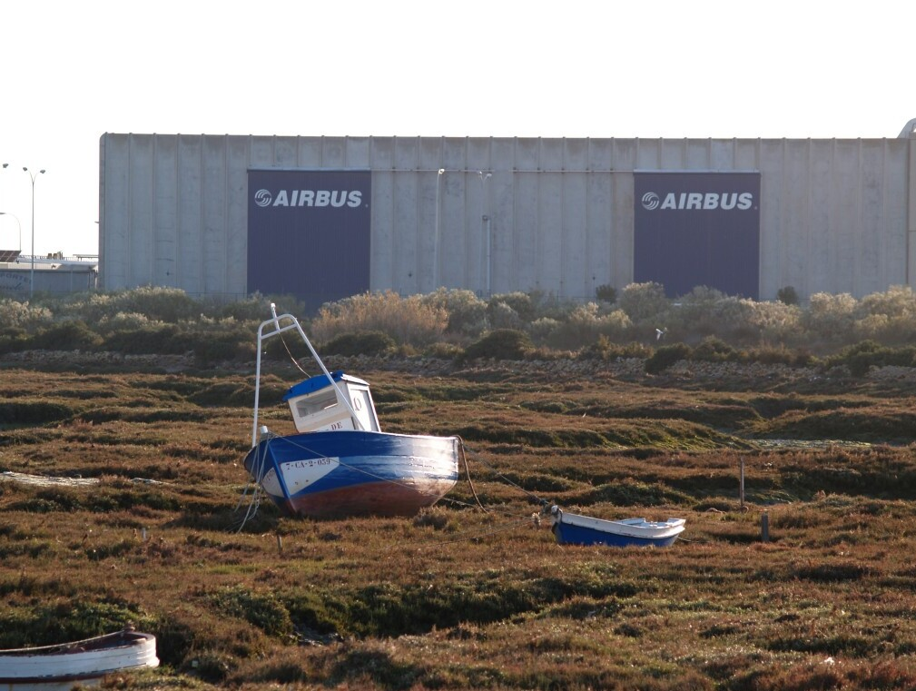 Airbus buildings in the Bay of Cádiz, Spain.'Airbus at Puerto Real - Cádiz'